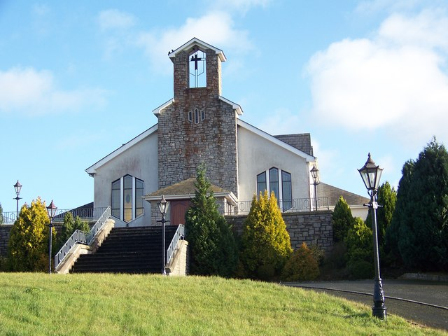 Ballela Chapel